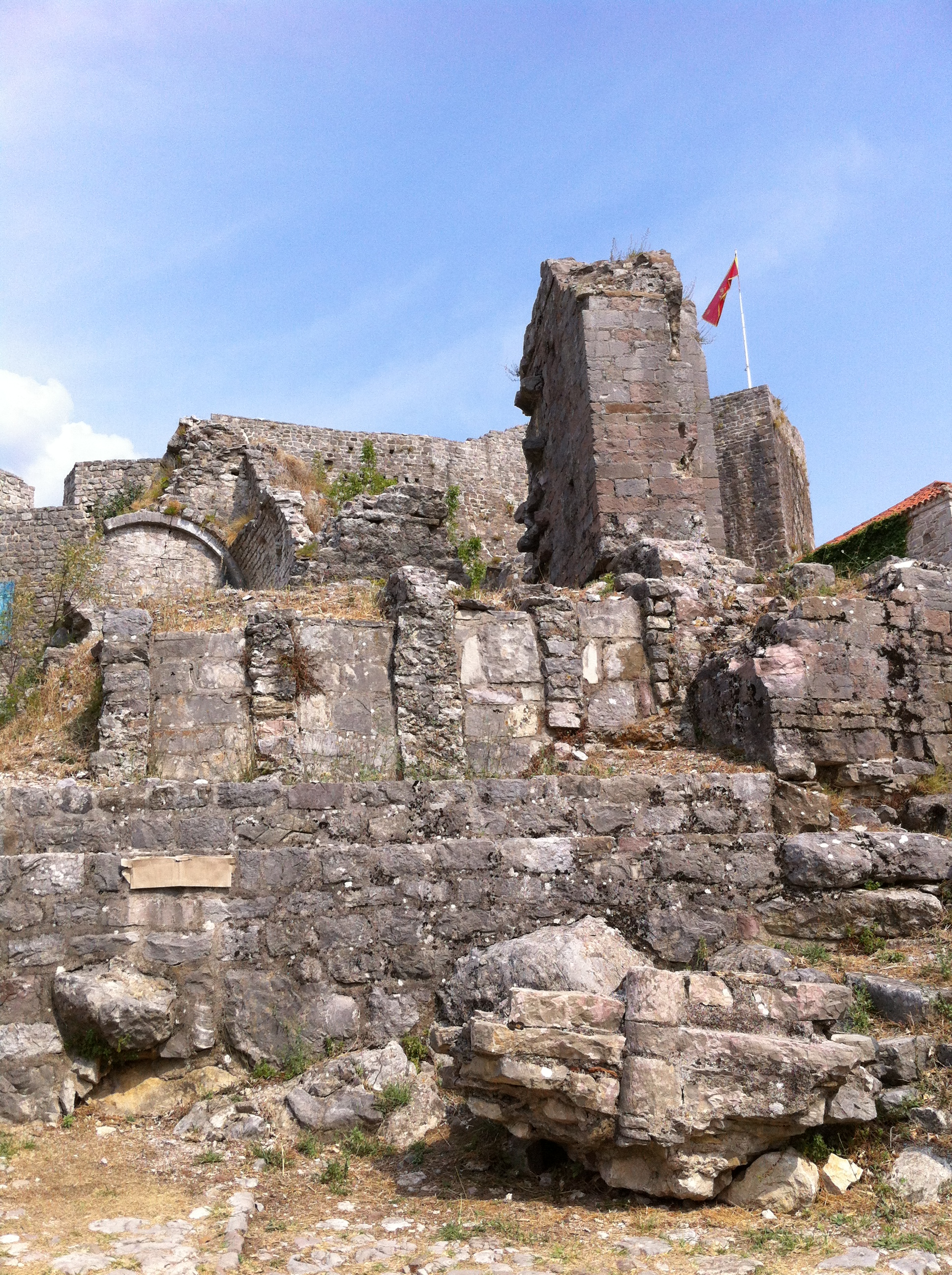 Ruins of St Nicholas Abbey in Old Bar, Montenegro